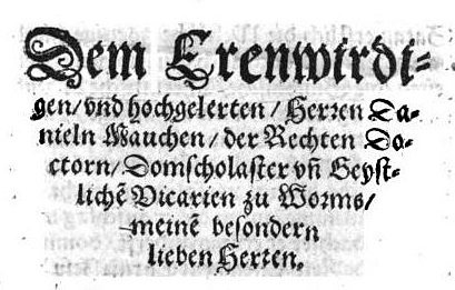 Georg Witzel, Widmung an Daniel Mauch, 1558, 5. Band seines Werkes „Typus ecclesiae prioris“